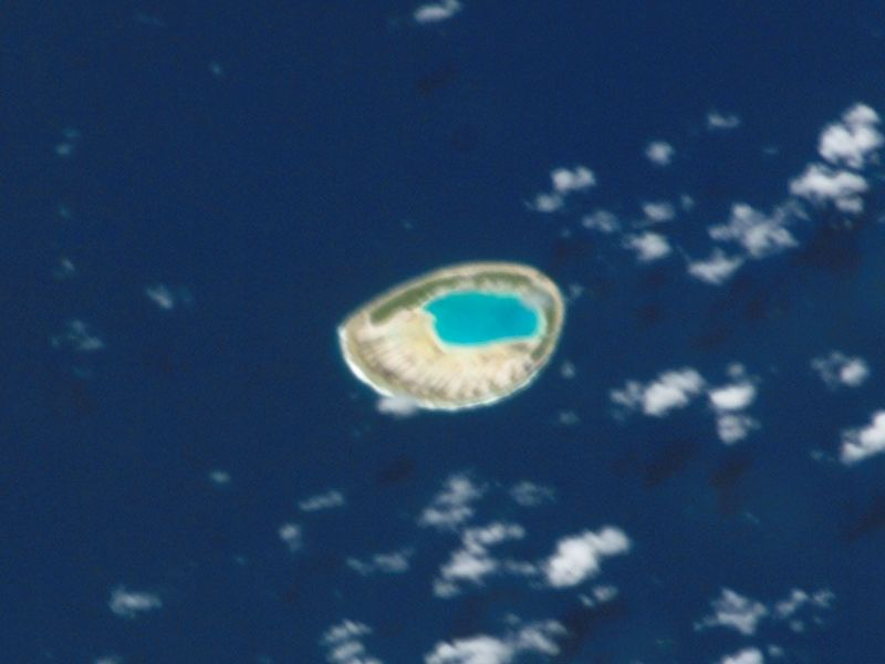 NASA astronaut image of Tepoto South Atoll (Tuamotu Archipelago, French Polynesia) in the Pacific Ocean